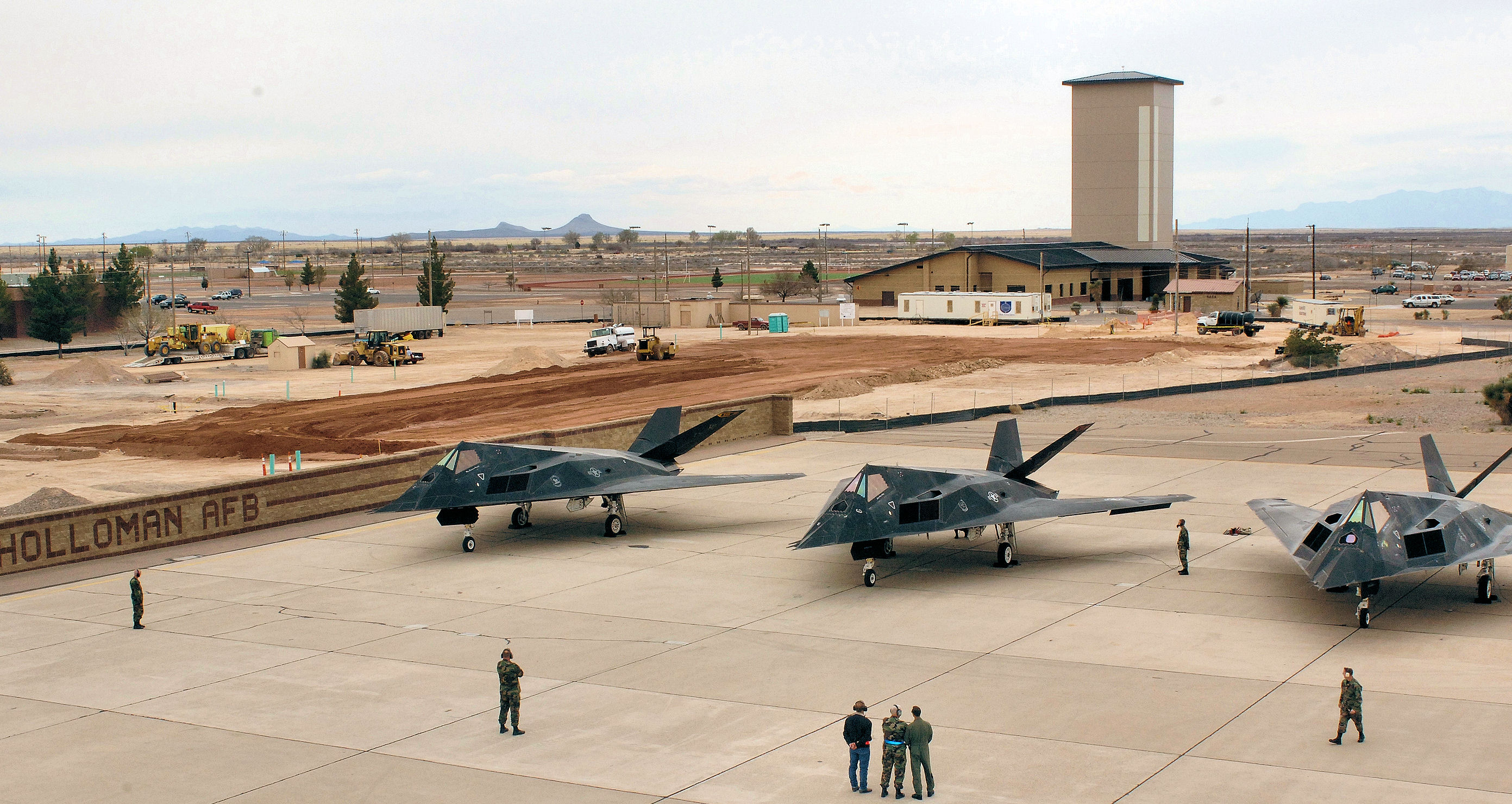 The first six F-117A Nighthawks of the 8th Fighter Squadron await their final flight to Tonopah Test Range, Nev., March 12. (U.S. Air Force photo by Airman 1st Class John Strong)